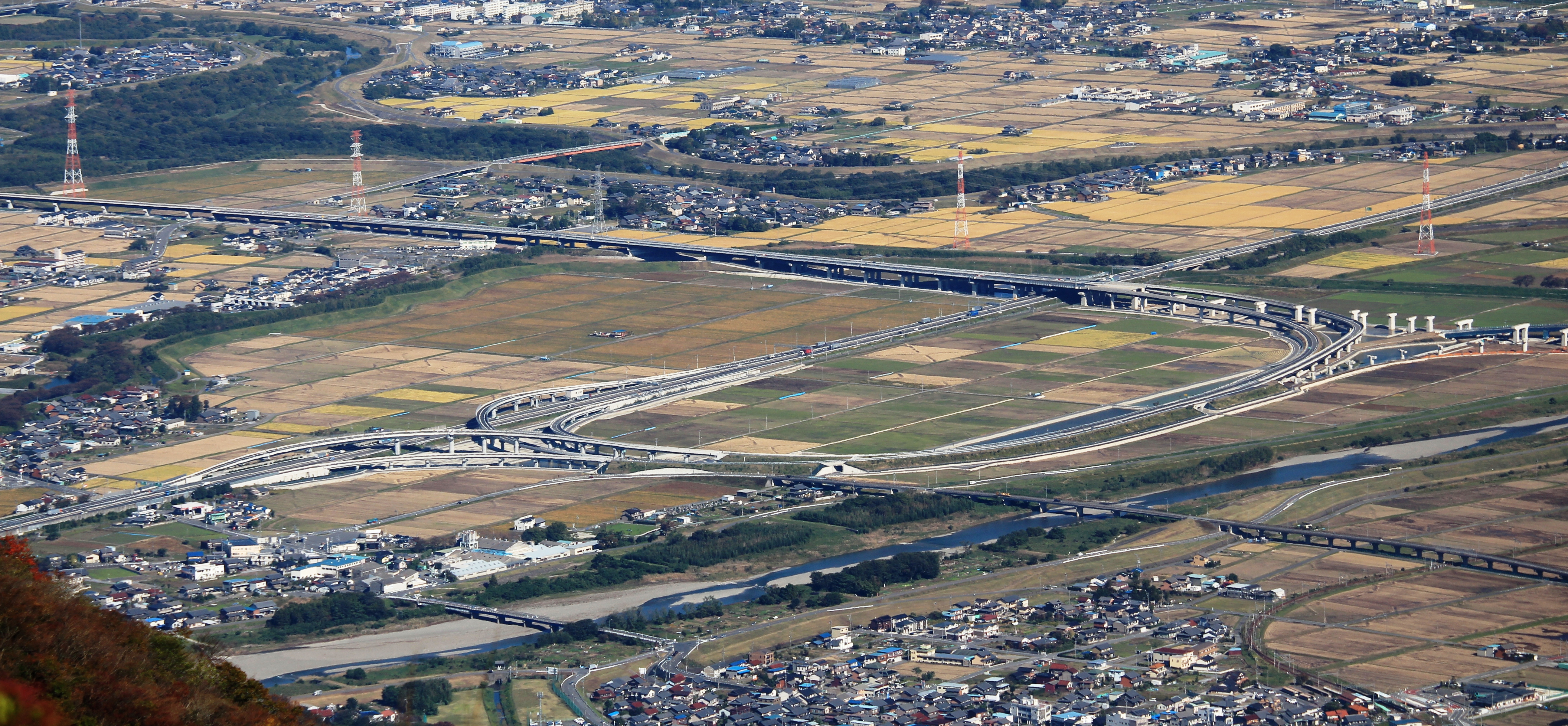 Yōrō Junction seen from Yōrō Mountains in Gifu prefecture, Japan.